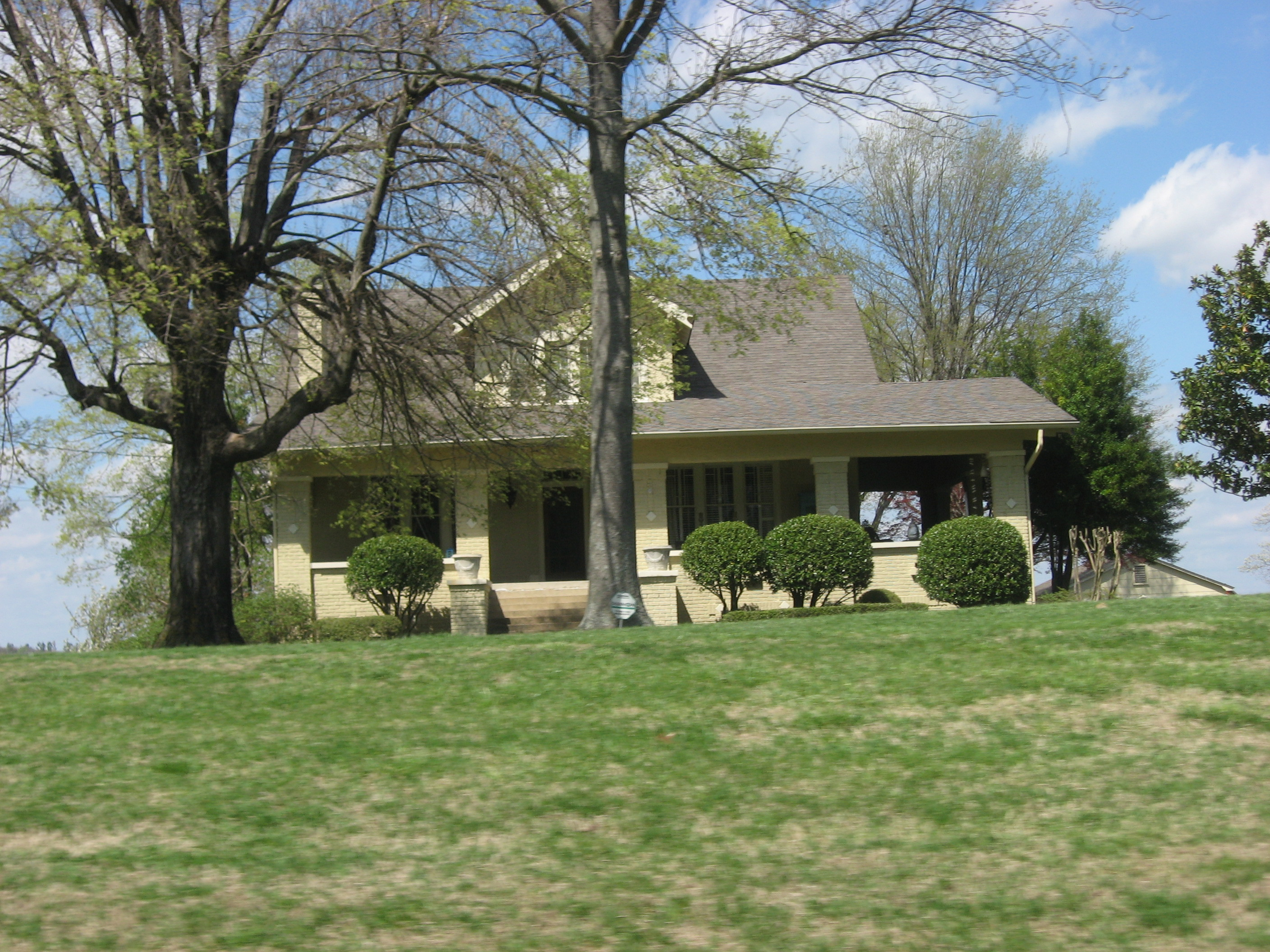 Front of the Houser House, located at 2221 Old Troy Road (State Route 184) west of Union City in Obion County, Tennessee, United States. Built in 1928, it is listed on the National Register of Historic Places.